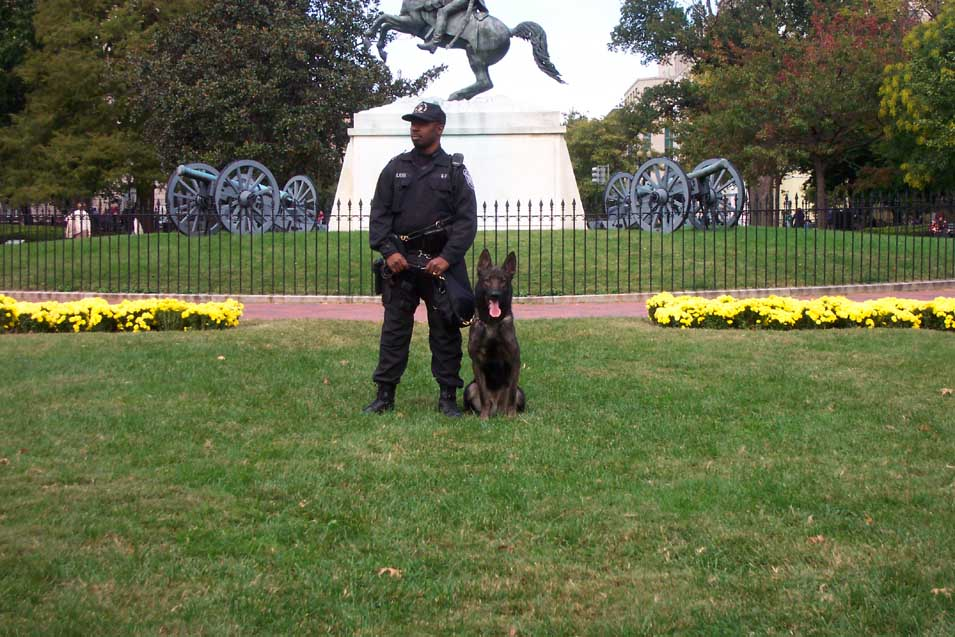 United States Park Police Canine Unit